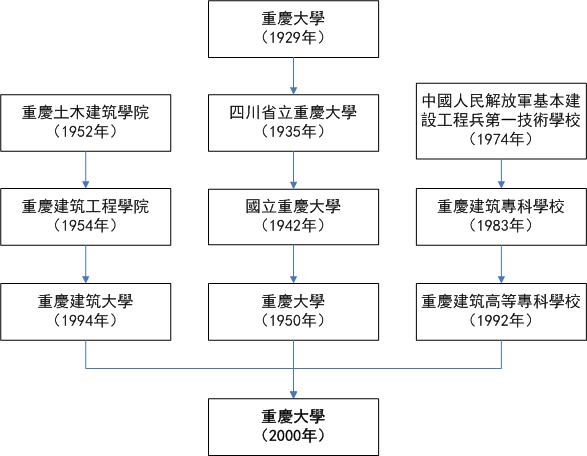 CQUhistory